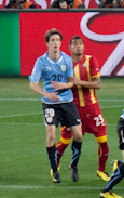 Kevin-Prince Boateng and Álvaro_Fernández – Teams during the FIFA World Cup 2010 quaterfinal between Uruguay and Ghana, 2 July 2010, Soccer City, Johannesburg